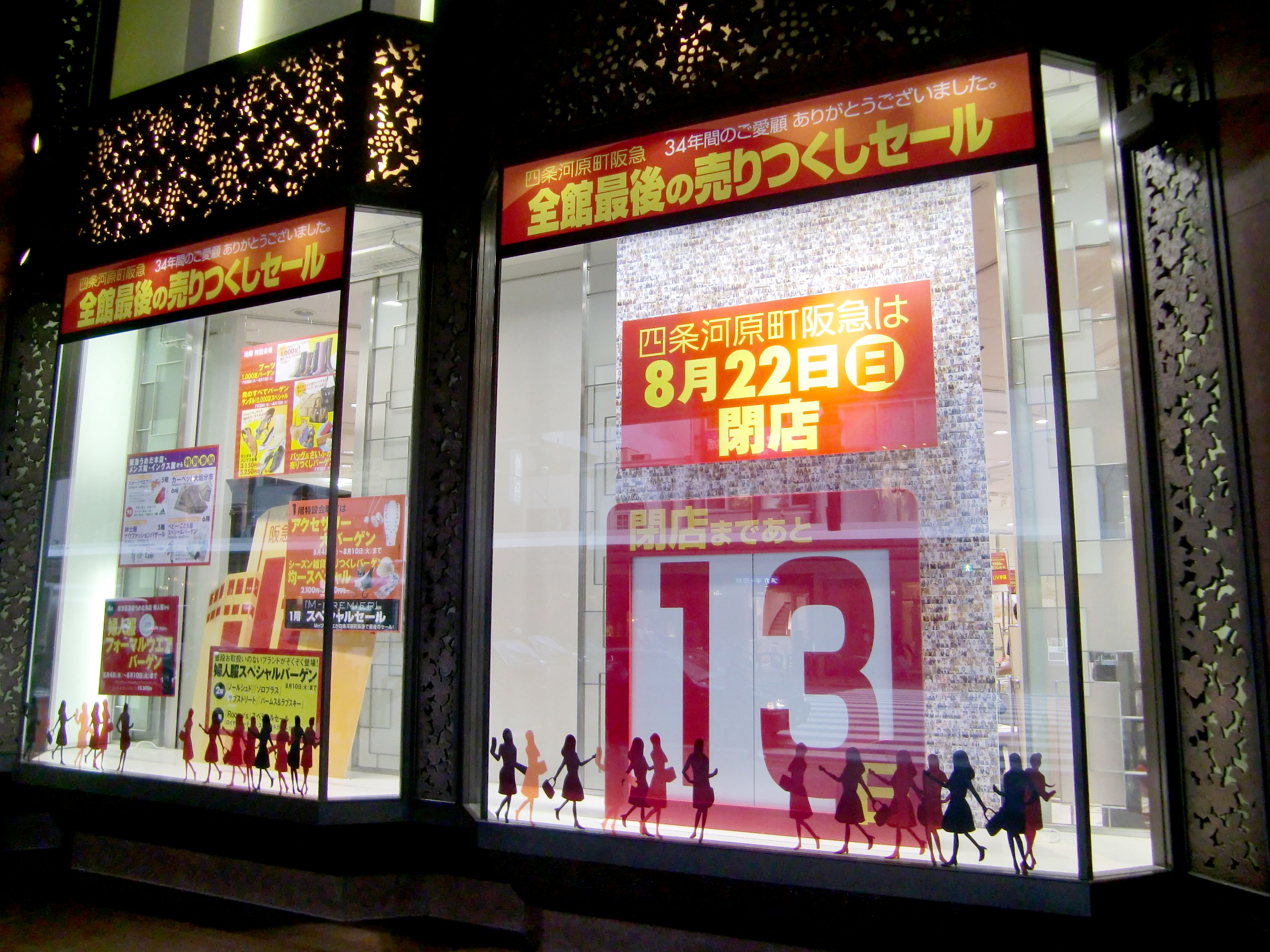 Shijo Kawaramachi Hankyu Countdown, 68 Shinmachi Shijo-Kawaramachi-higashiiru Shimogyo-ku Kyoto-City Kyoto JAPAN.